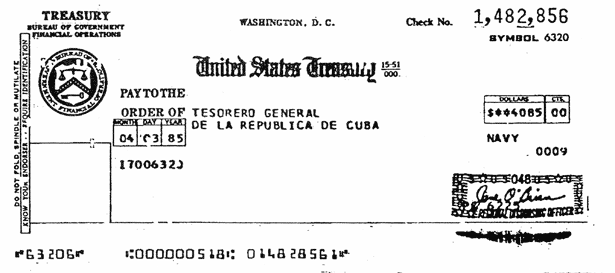 1985 check for Guantanamo rent issued by US Treasury department, never cashed by Cuban government